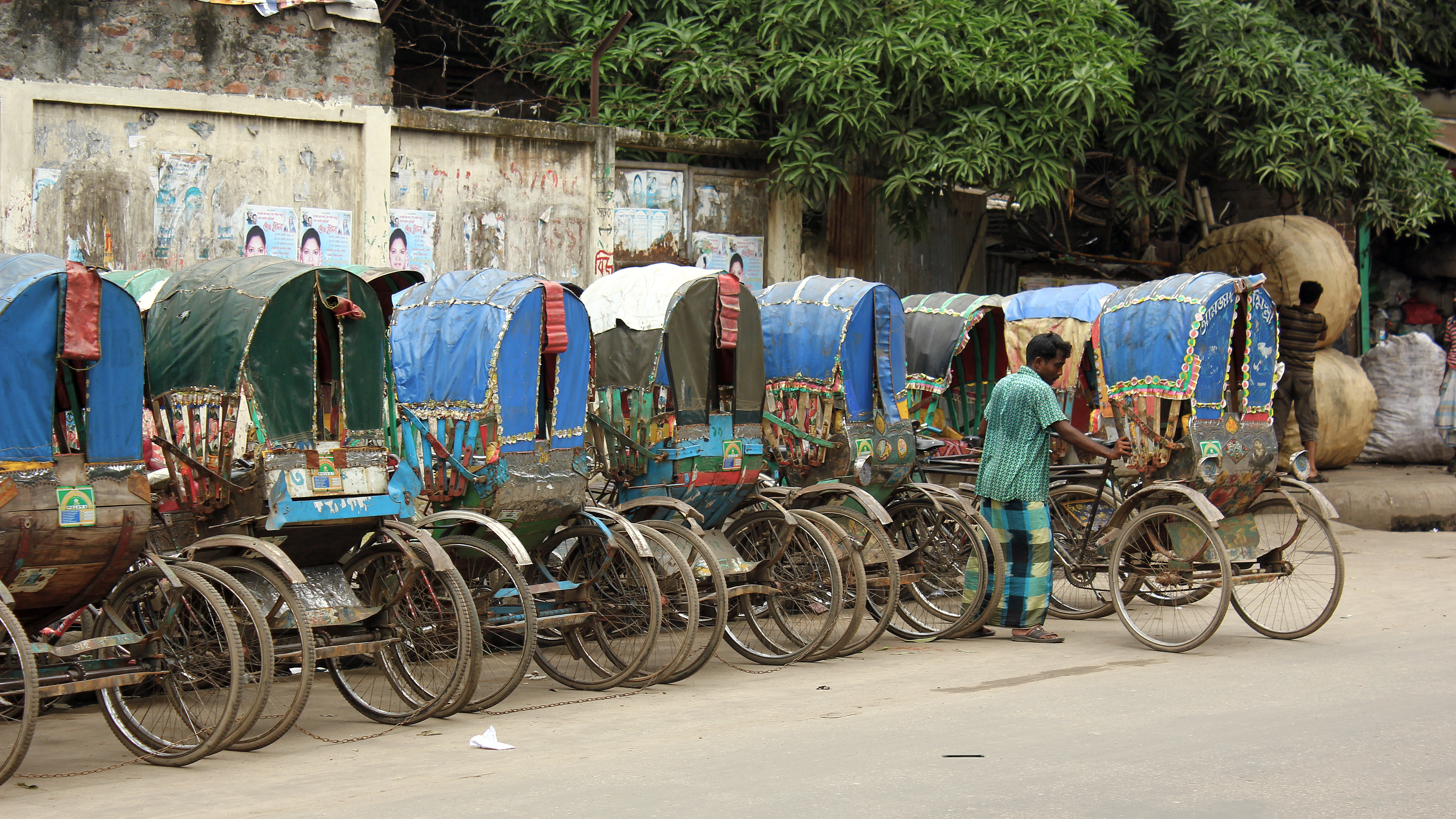 A rickshaw parking area at Dhaka, Bangladesh